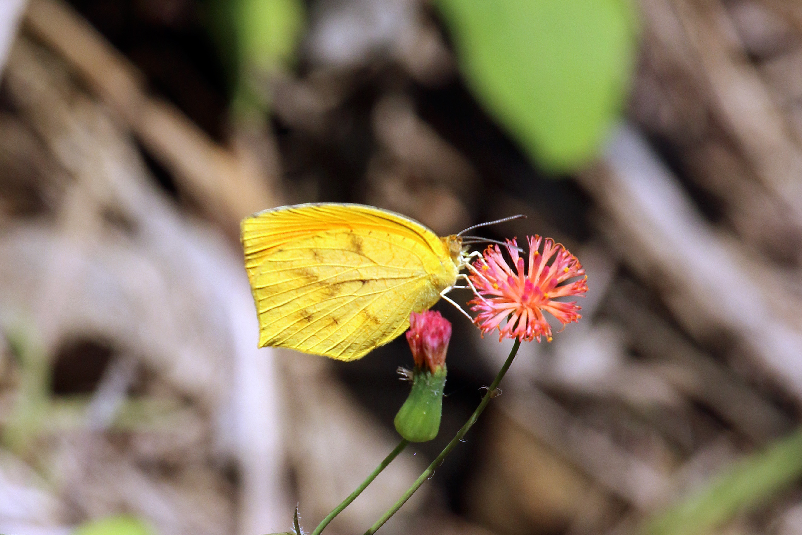 Proterpia orange butterfly (Eurema proterpia proterpia) in Jamaica